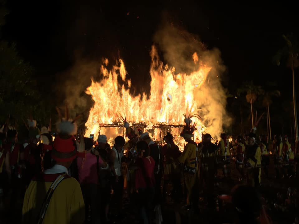 2017-Sakizaya Palamal- salisinaya dabek07